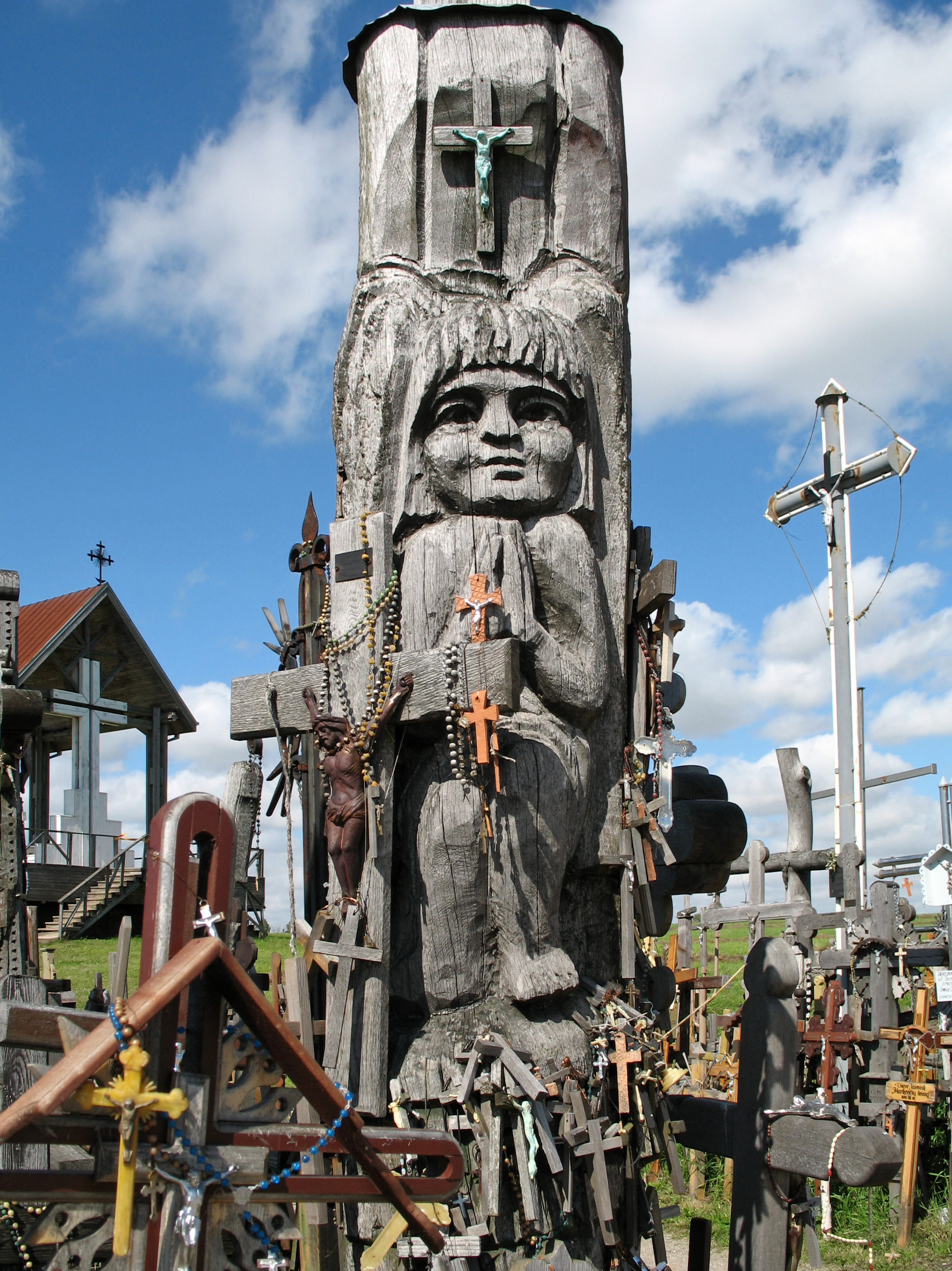 Hill of Crosses, Lithuania